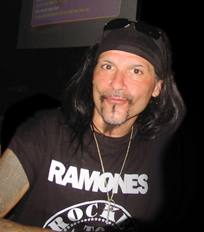 Al Jourgensen Ministry Revolting Cocks